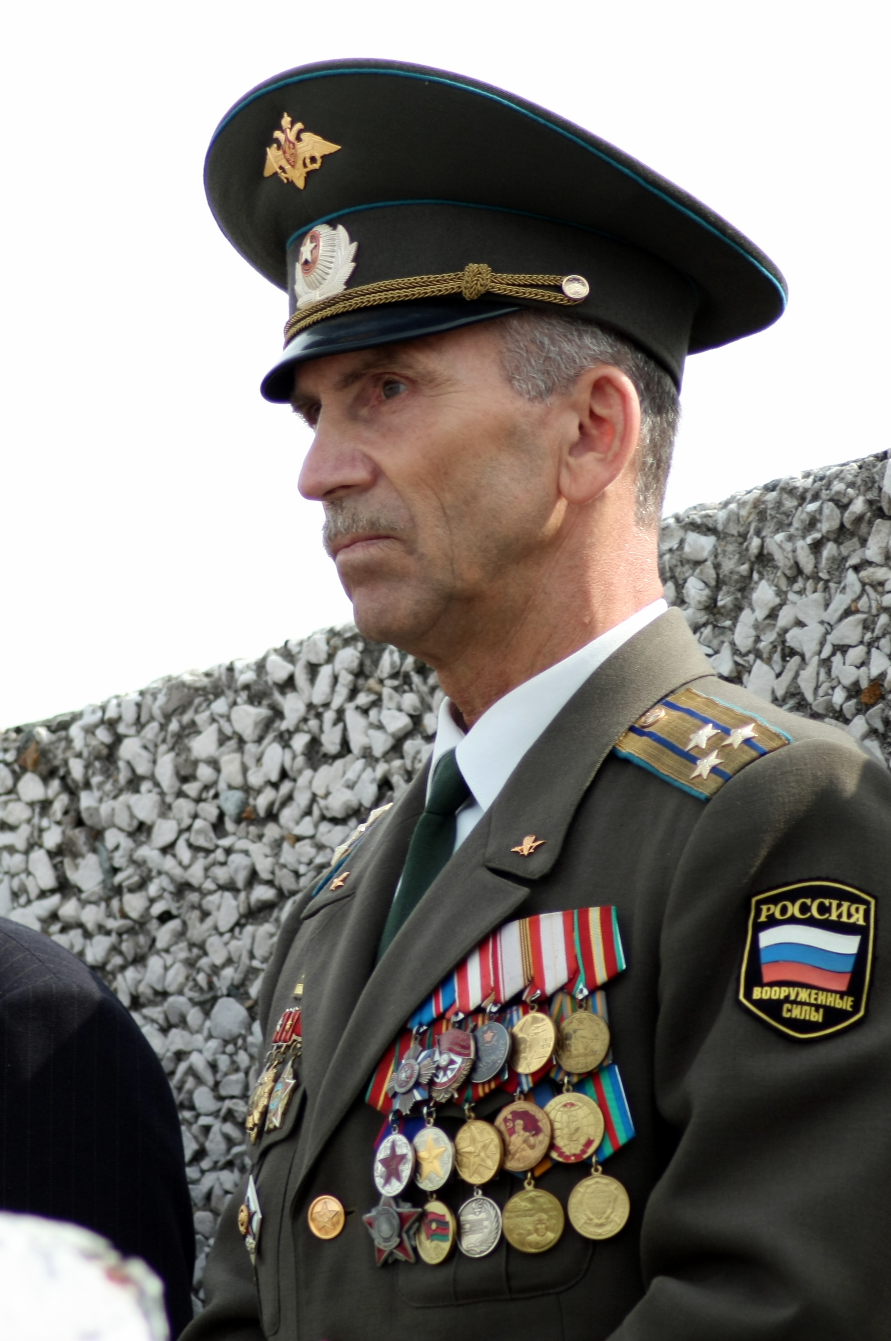 Col. Leonid Khabarov at the Veteran’s Day, prior to the arrest.